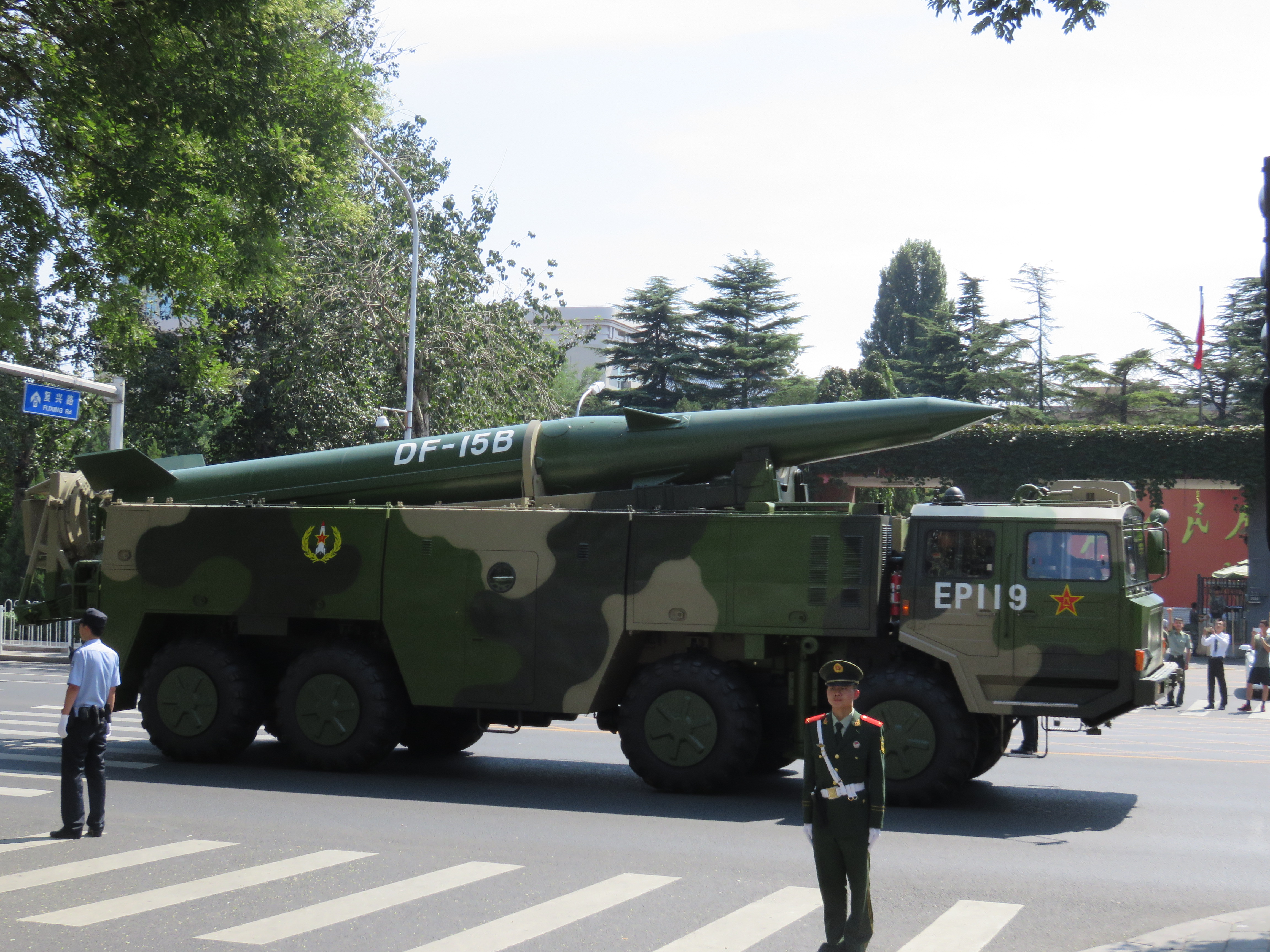 DF-15B short-range ballistic missile as seen after the military parade held in Beijing to commemorate the 70th anniversary of the end of WWII.